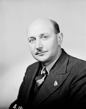 A 1954 black and white portrait of Reginald Swartz, MHR for Darling Downs